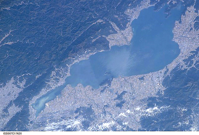 NASA photo of Shiga Prefecture, Japan from space. Courtesy of Earth Sciences and Image Analysis Laboratory, NASA Johnson Space Center.